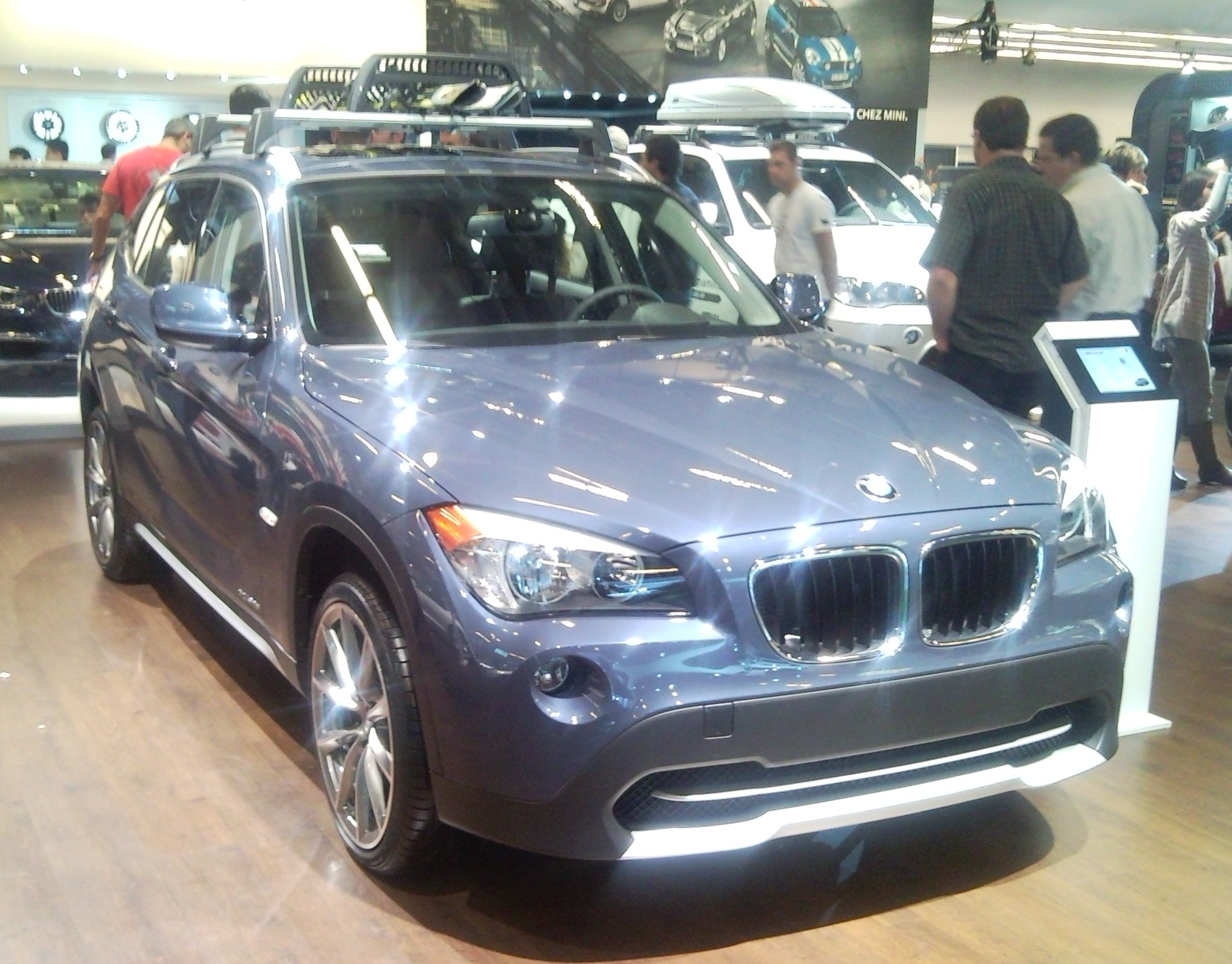 2012 BMW X1 photographed in Montreal, Quebec, Canada at the 2012 Montreal International Auto Show.